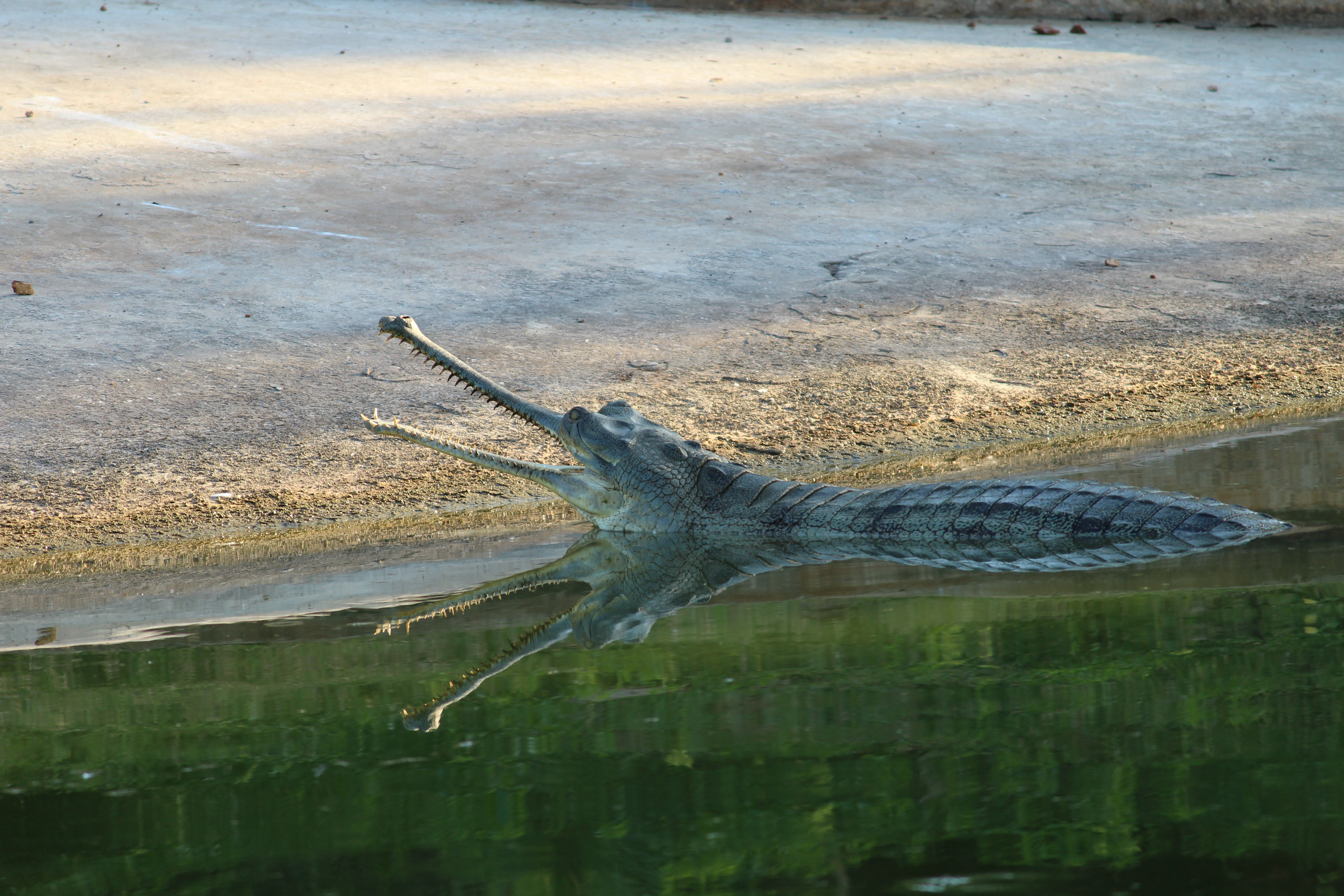 Crocodile at Indira Gandhi Zoological Park, Visakhapatnam